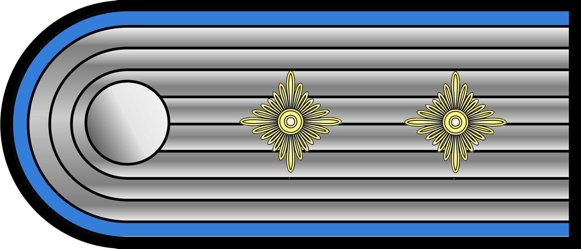 Rang insignia shoulder strap, SS-Hauptsturmfuehrer of the Waffen-SS until 1945, corps colour “bright blue” of the SS-Supply / Logistics.